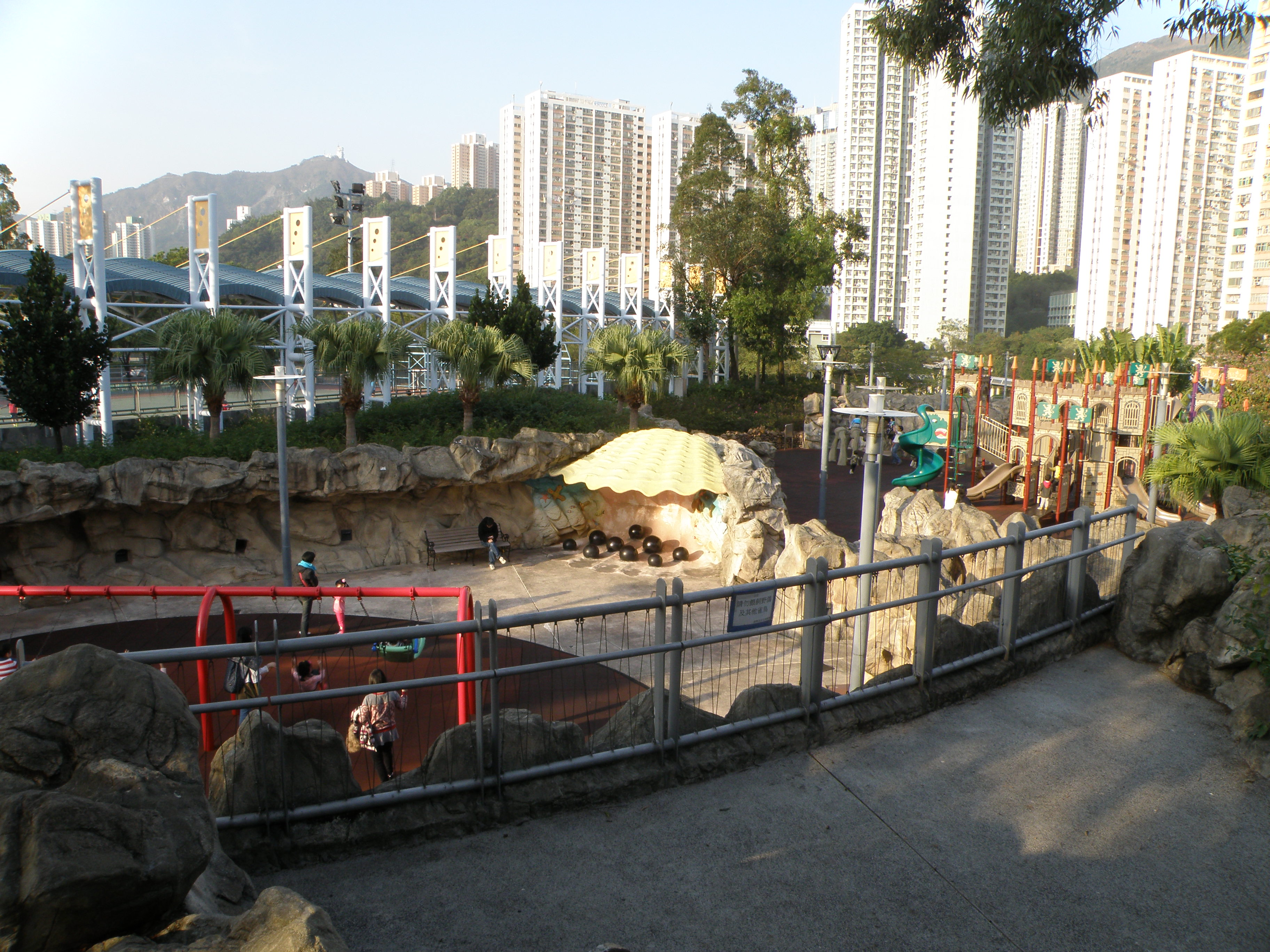 Ping Shek Playground in Ngau Chi Wan, Hong Kong.